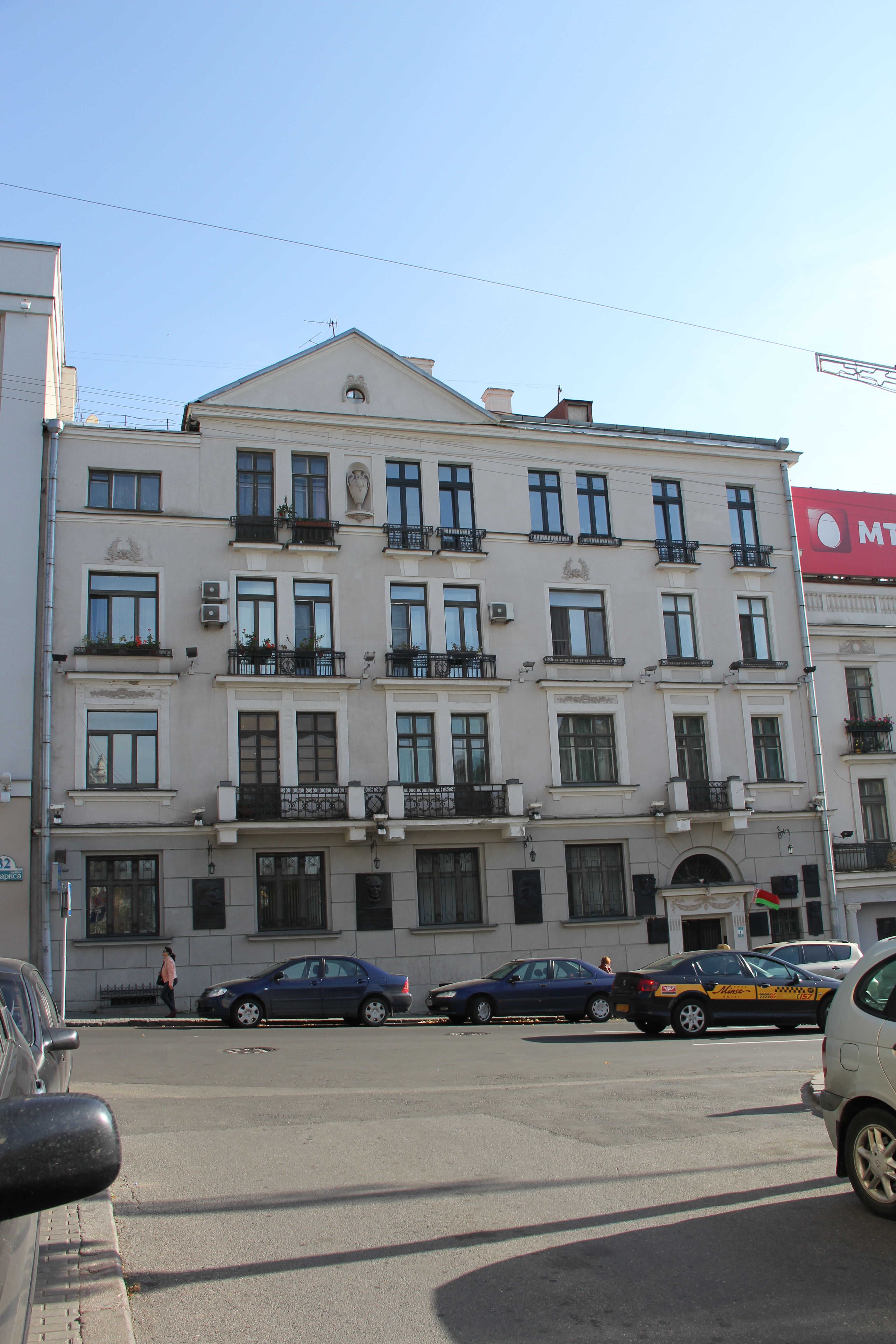 Беларуская (тарашкевіца): Будынак. г. Менск This is a photo of Belarusian heritage monument. Reference number: 713Г000129 ( WLM)